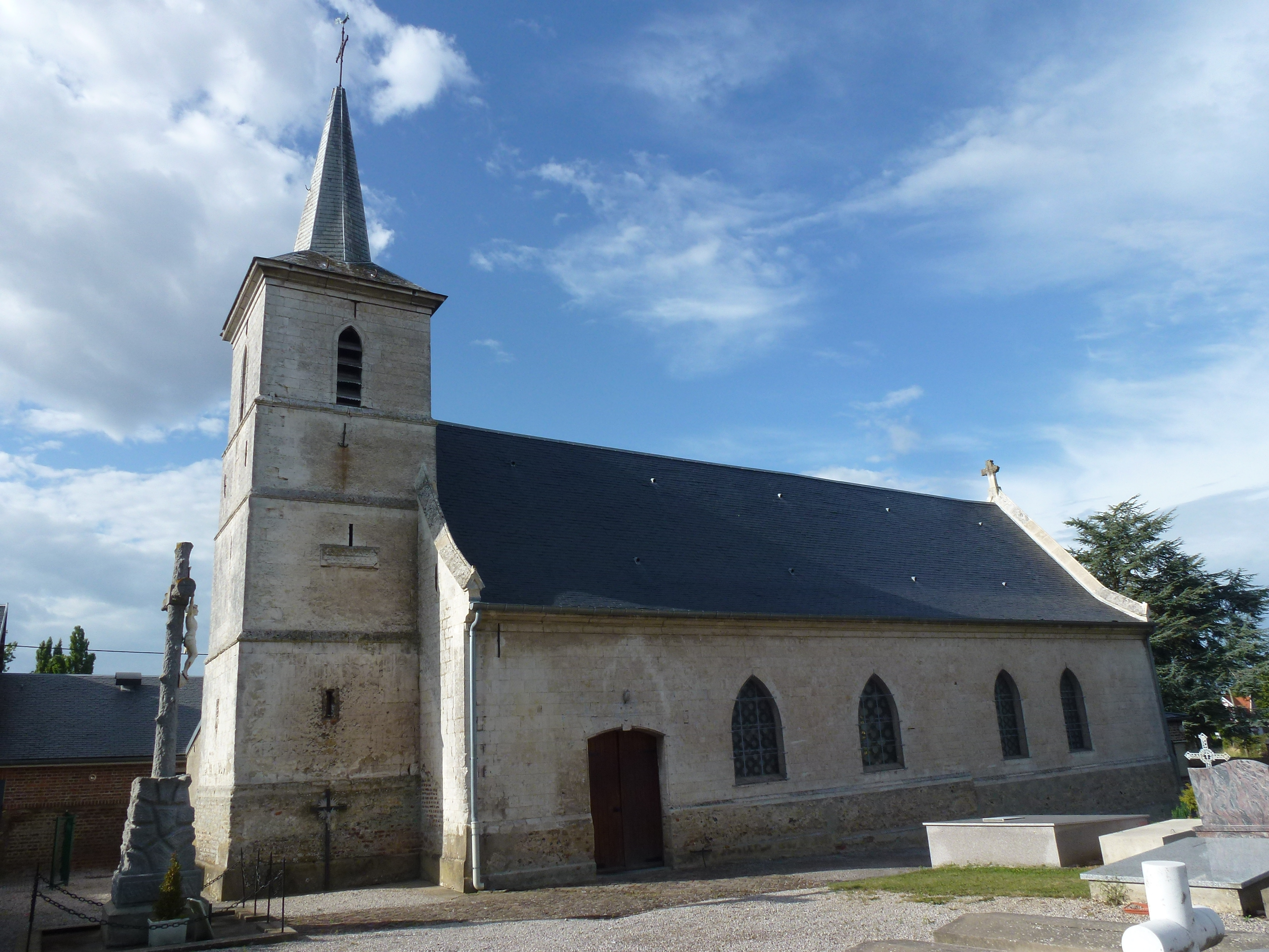 Autingues (Pas-de-Calais) église